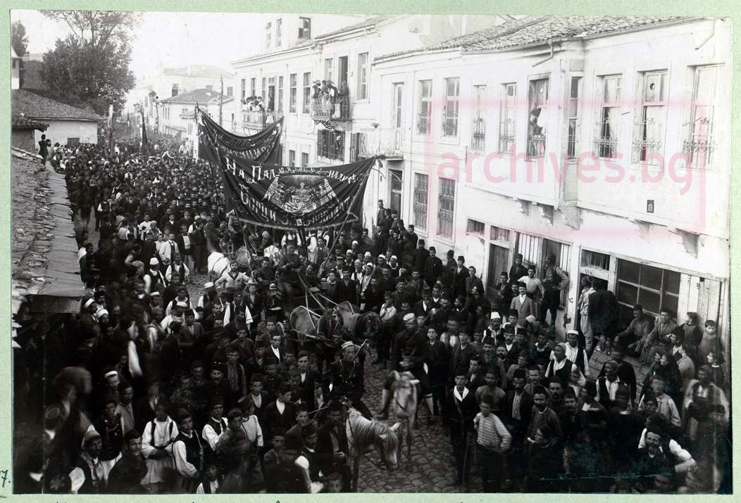 Bulgarian IMARO cheti enter in Bitolya, after the young Turks revolution